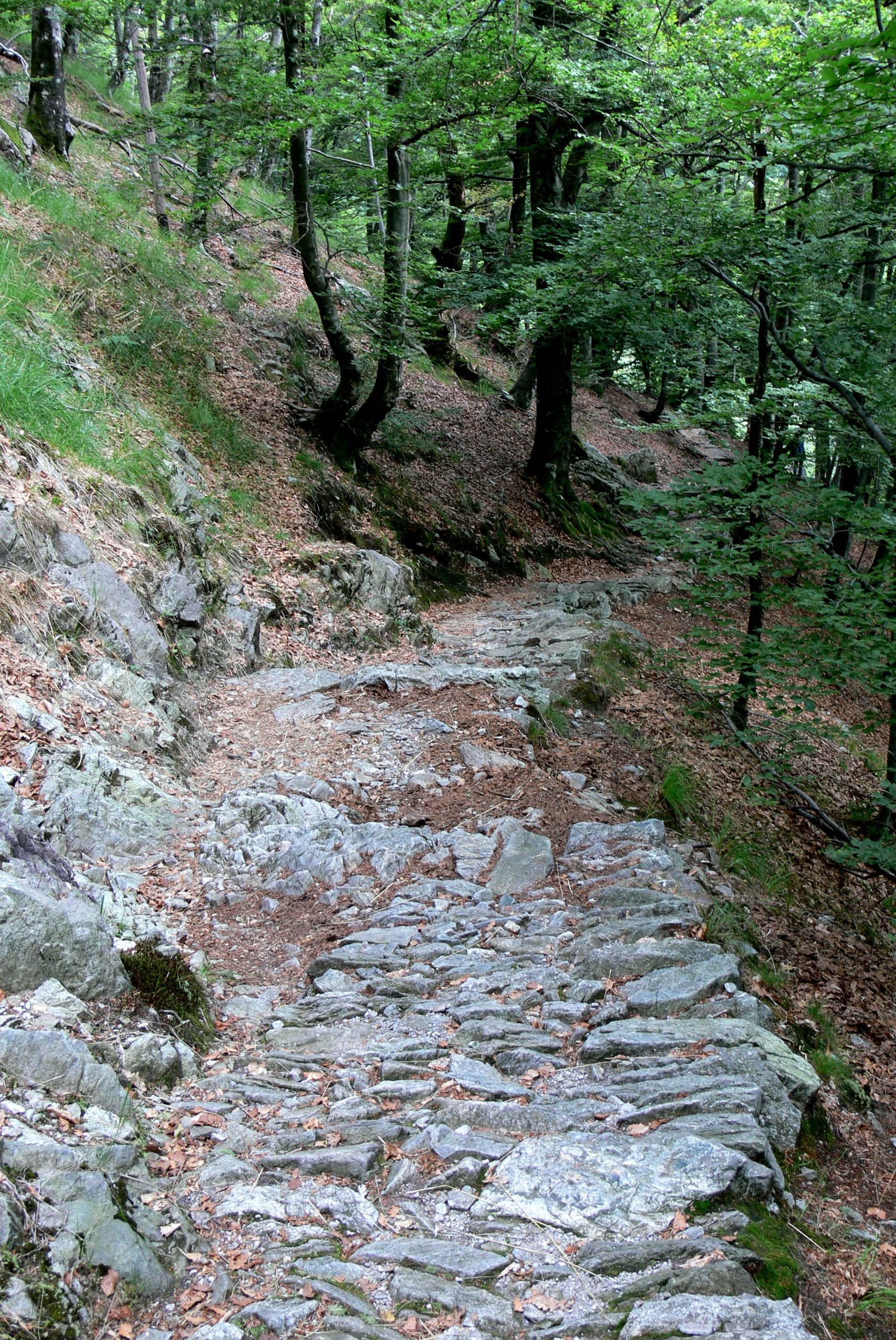 Rasa ( Intragna / Locarno ). Old track to the village.